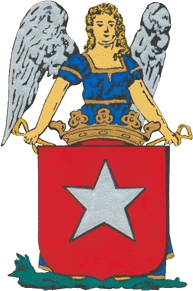 Coat of arms of Maastricht, province of Limburg, The Netherlands.